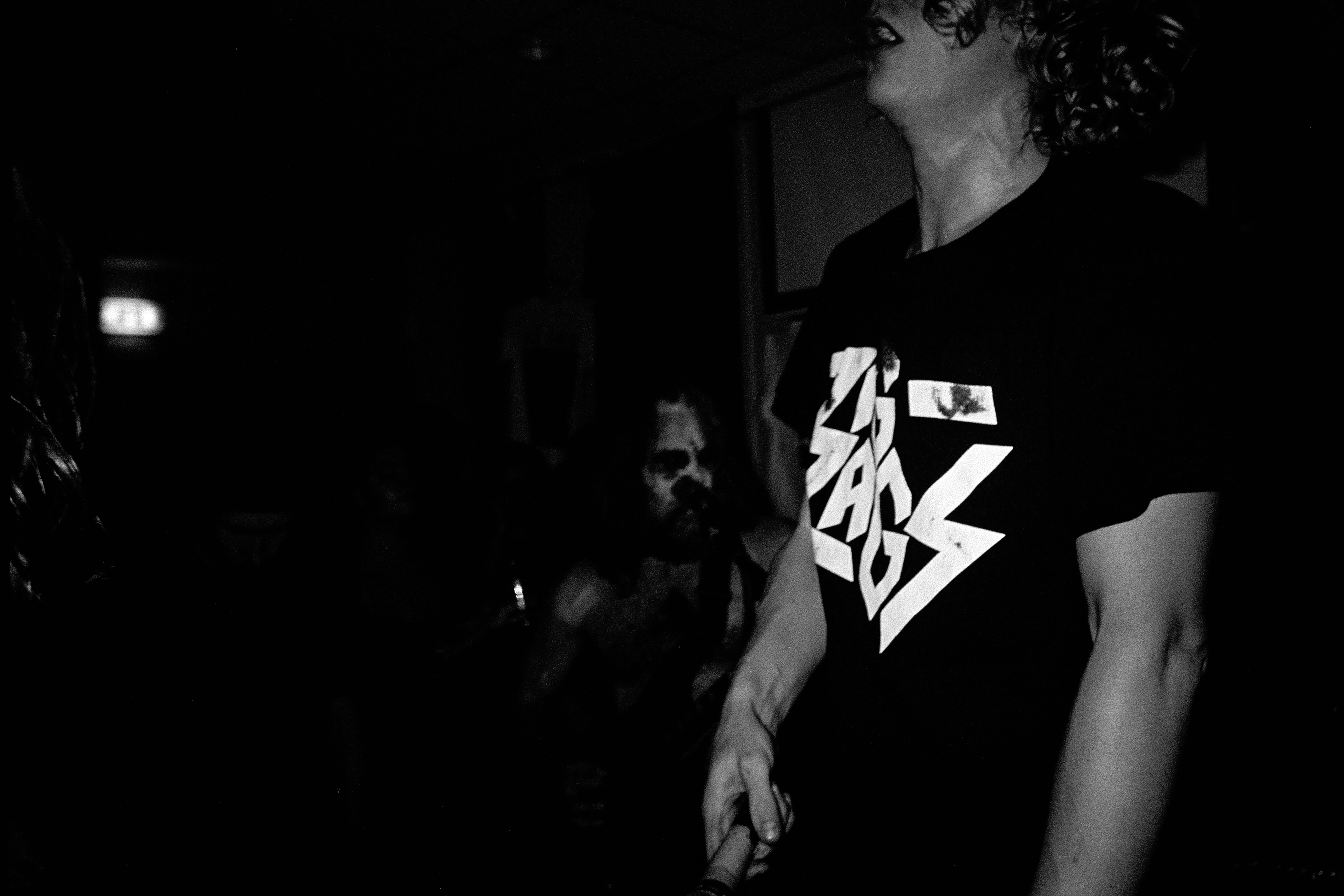 Grindadrap, frontman in Drittmaskin - Concert at Victoria Cafe and Pub, Bergen, Norway, 23rd of November 2018 - Photo by Marius Eriksen